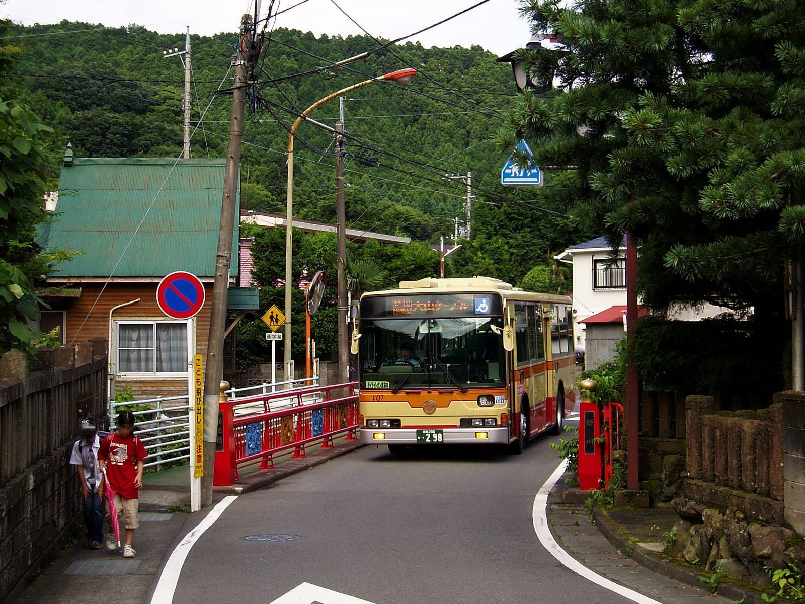 Kanagawa Chuo Kotsu I37 Mitsubishi KL-MP35JM near by Oyama sta. in Isehara City,Kanagawa